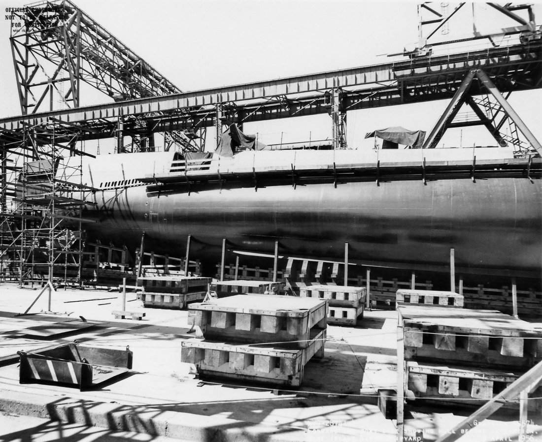 The bow of Grayback (SSG-574) on the ways at Mare Island on 3 April 1956. Note that she is configured as an attack submarine at this date.